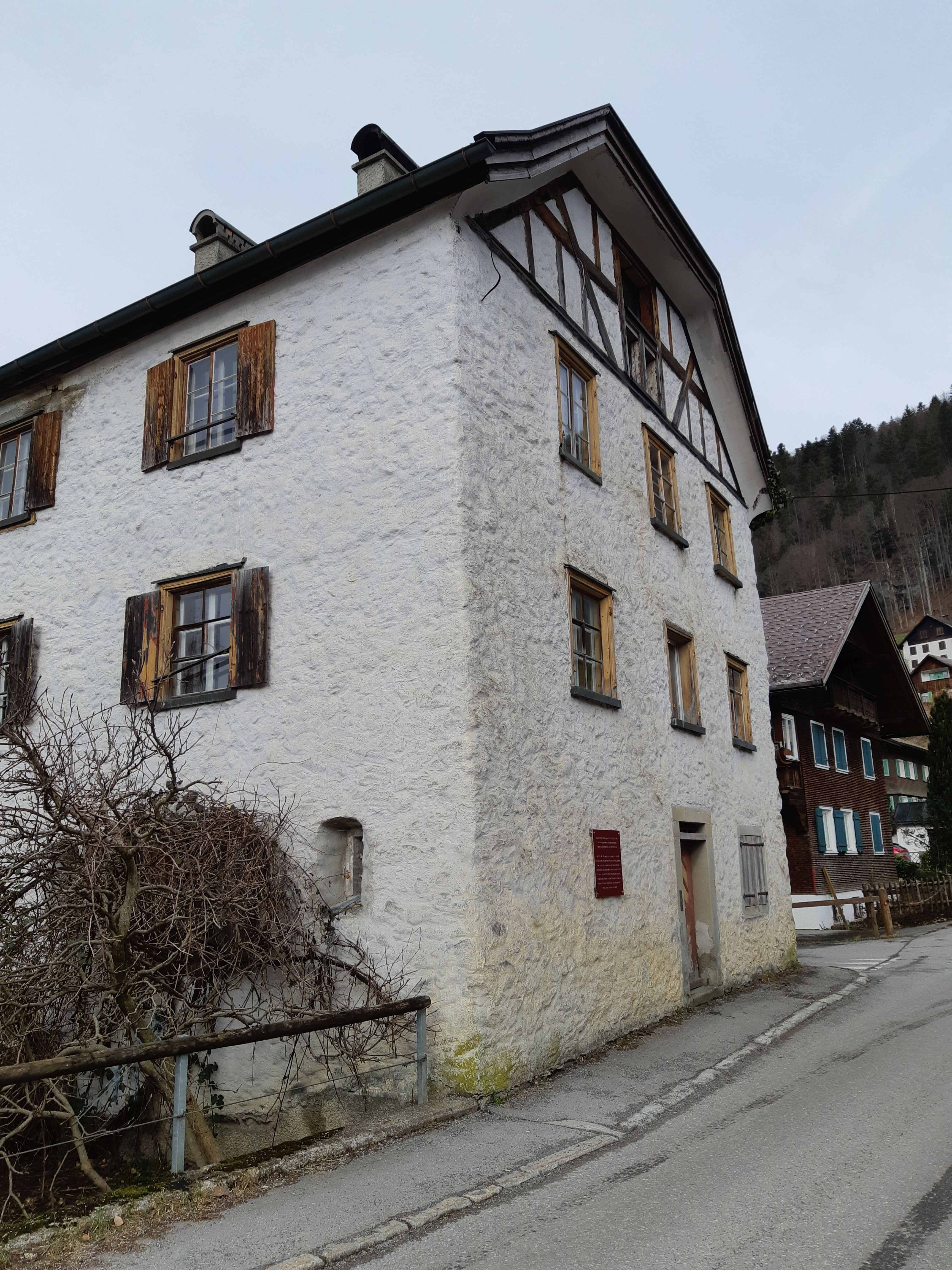 "The tower" (German: "Der Turm") in Bezau, Vorarlberg, Austria. Former "Fronfeste" (old simple castle), built in 1807 from the Bregenzerwald stand under Bavarian rule. Former Used as a courthouse and prison. House Bezegg No. 61.